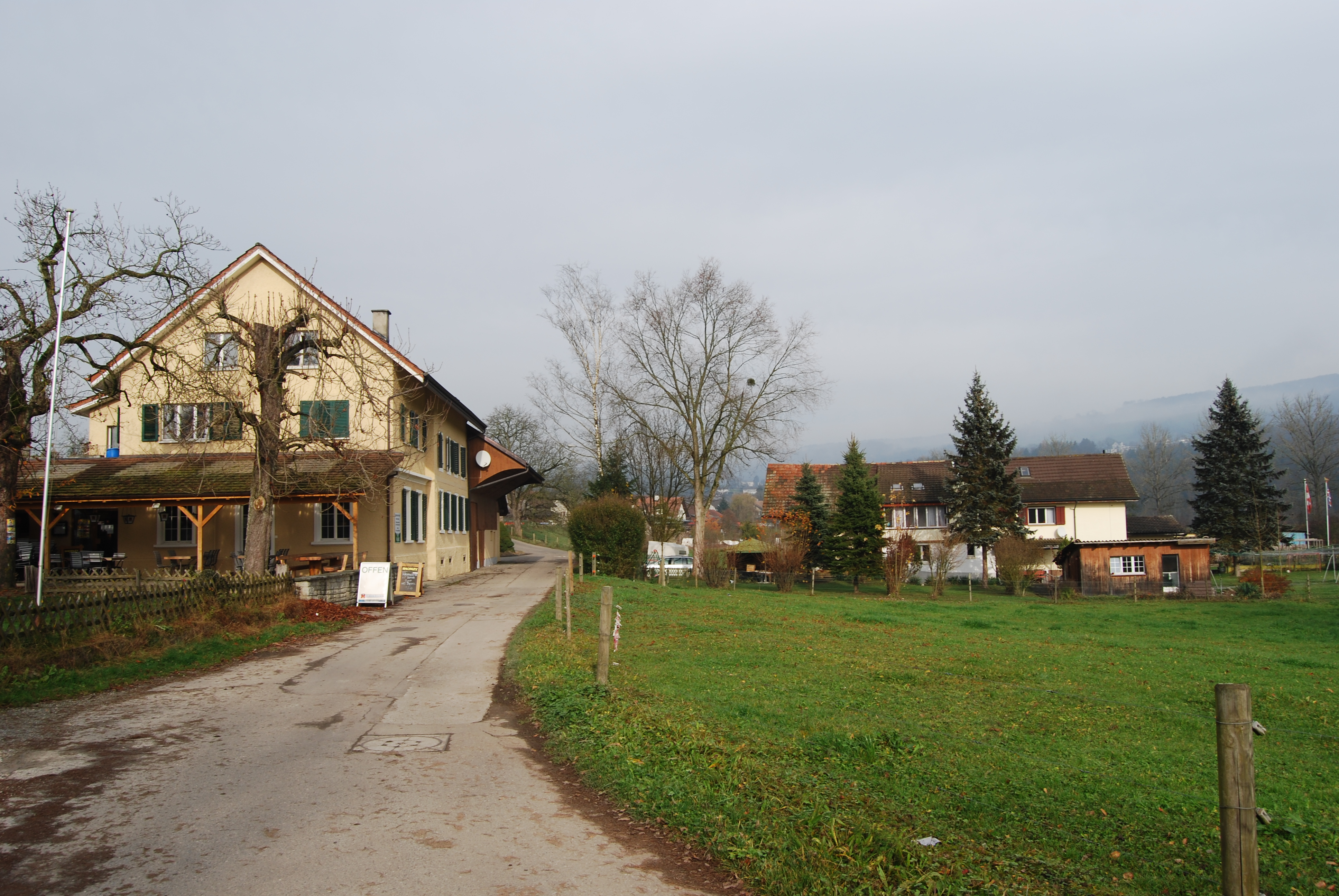 Restaurant Fahr at Sulz, municipality of Künten, canton of Aargau, SwitzerlandEsperanto: Restoracio Fahr en Sulz, komunumo Künten, Kantono Argovio, Svislando